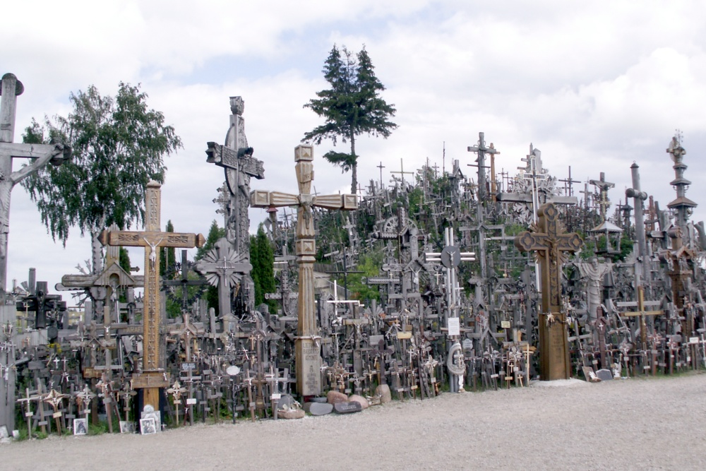 Hill of Crosses